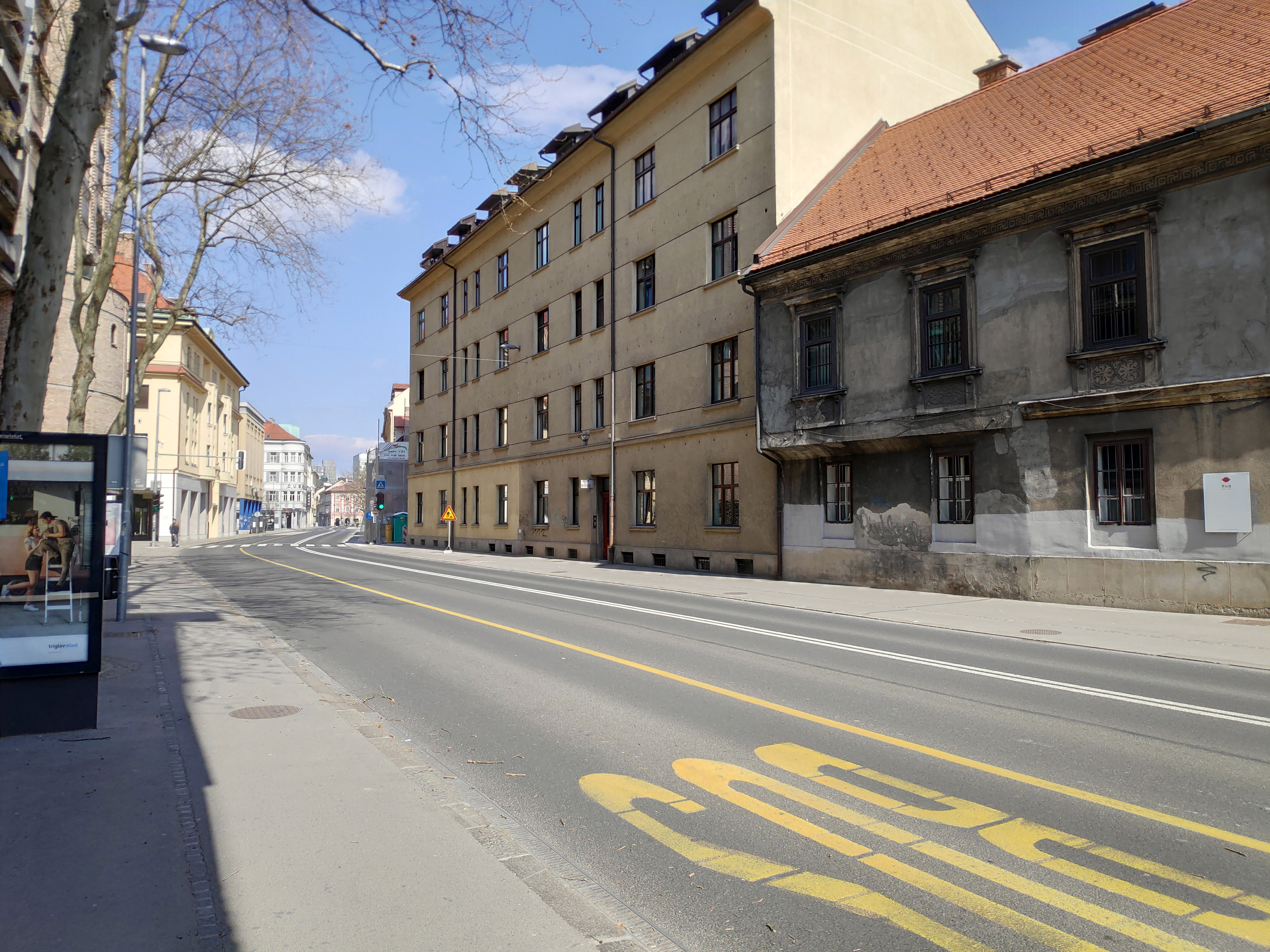 COVID-19 pandemic in Slovenia (Ljubljana, Slovenska cesta)